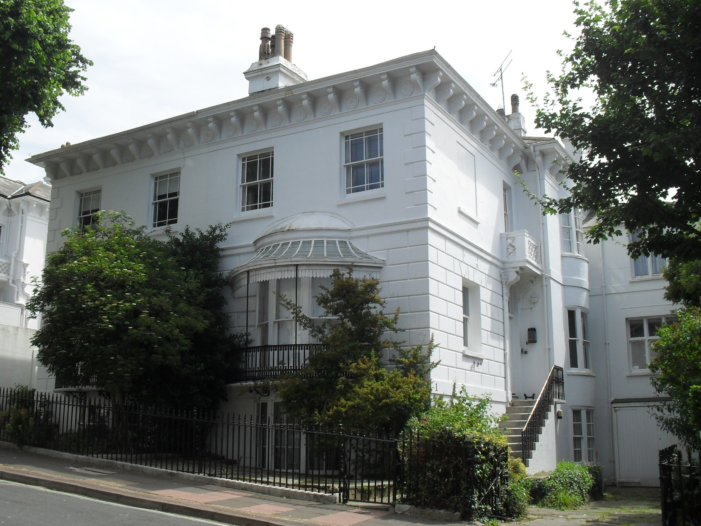 1 and 2 Montpelier Villas, Brighton, City of Brighton and Hove, England. Listed at Grade II by English Heritage (NHLE Code 1380089)